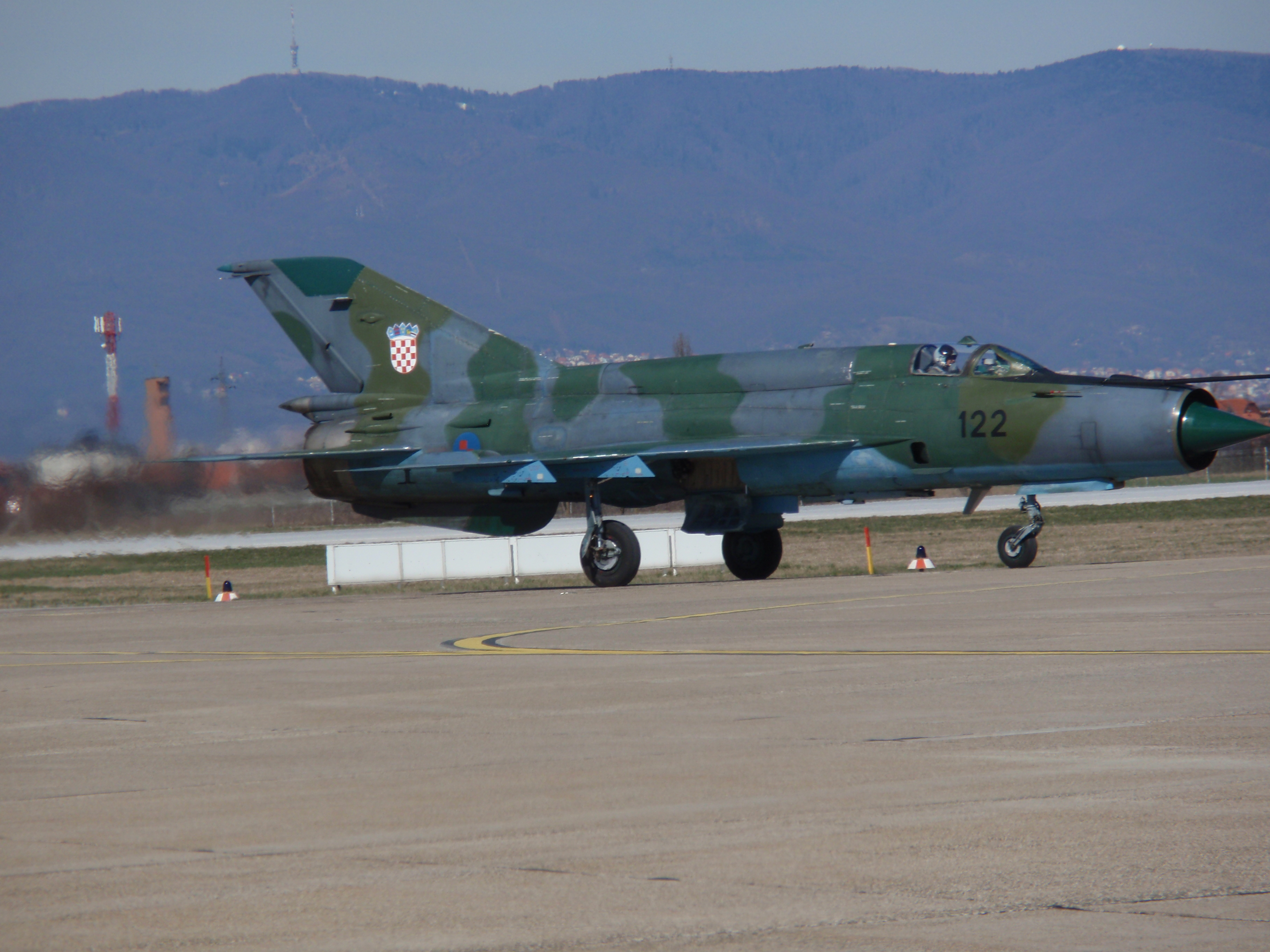 MiG 21-Bis, Croatian air force